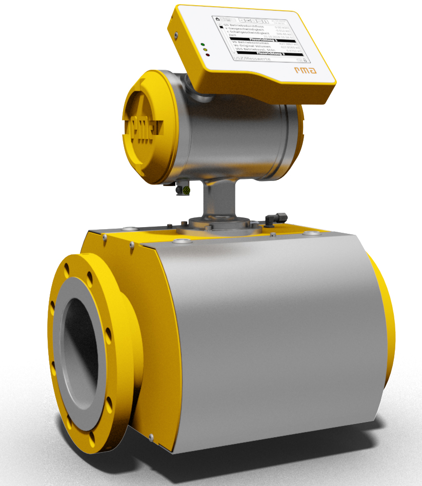 An ultrasonic gas flow meter (RMA Mess- und Regeltechnik GmbH & Co. KG)